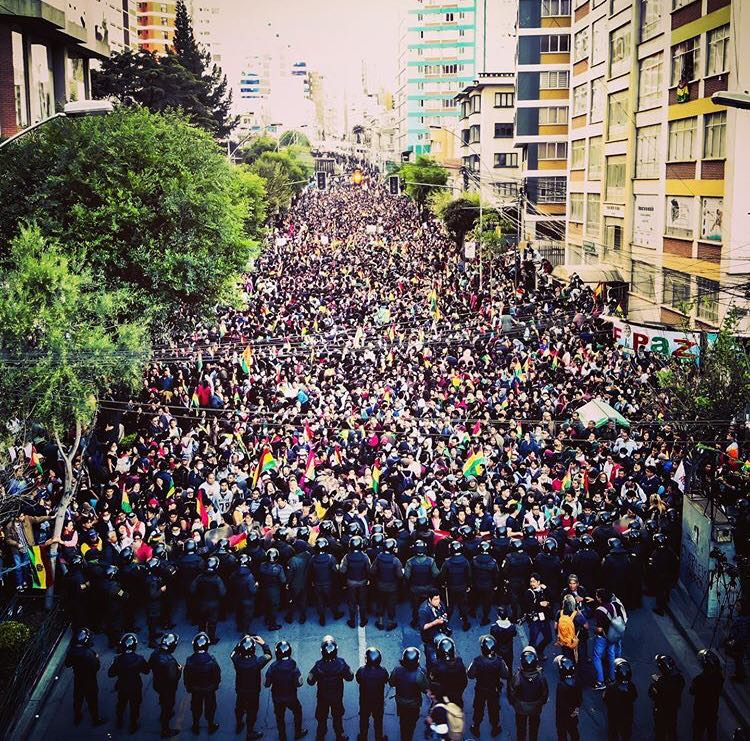 Demonstrations in La Paz, Bolivia against electoral fraud and the government of Evo Morales